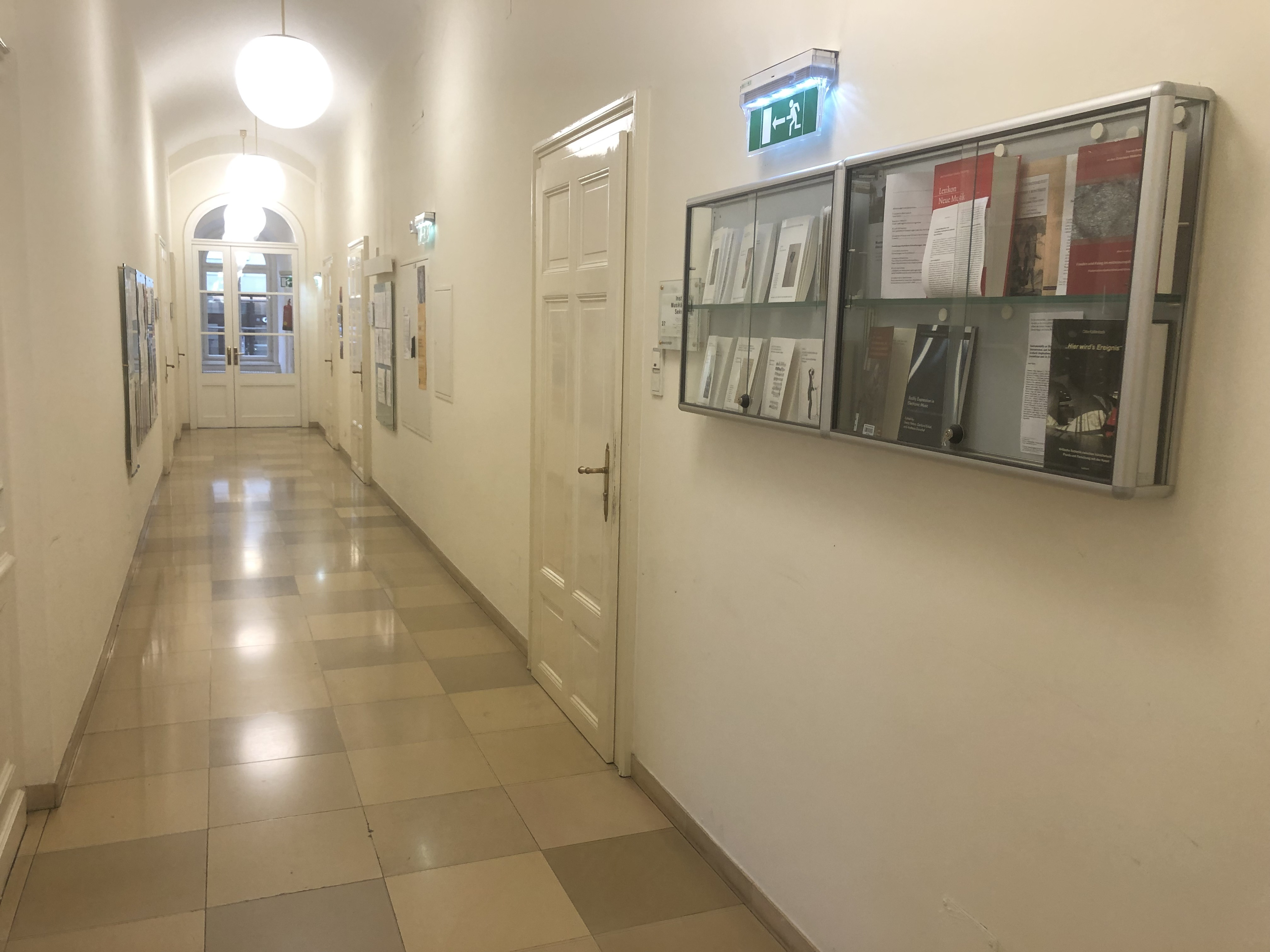 Palais Meran Graz, Südflügel